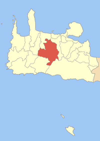 Locator map of Mousouri municipality (Δήμος Μουσούρων) in Chania prefecture (Νομός Χανίων) in Greece.